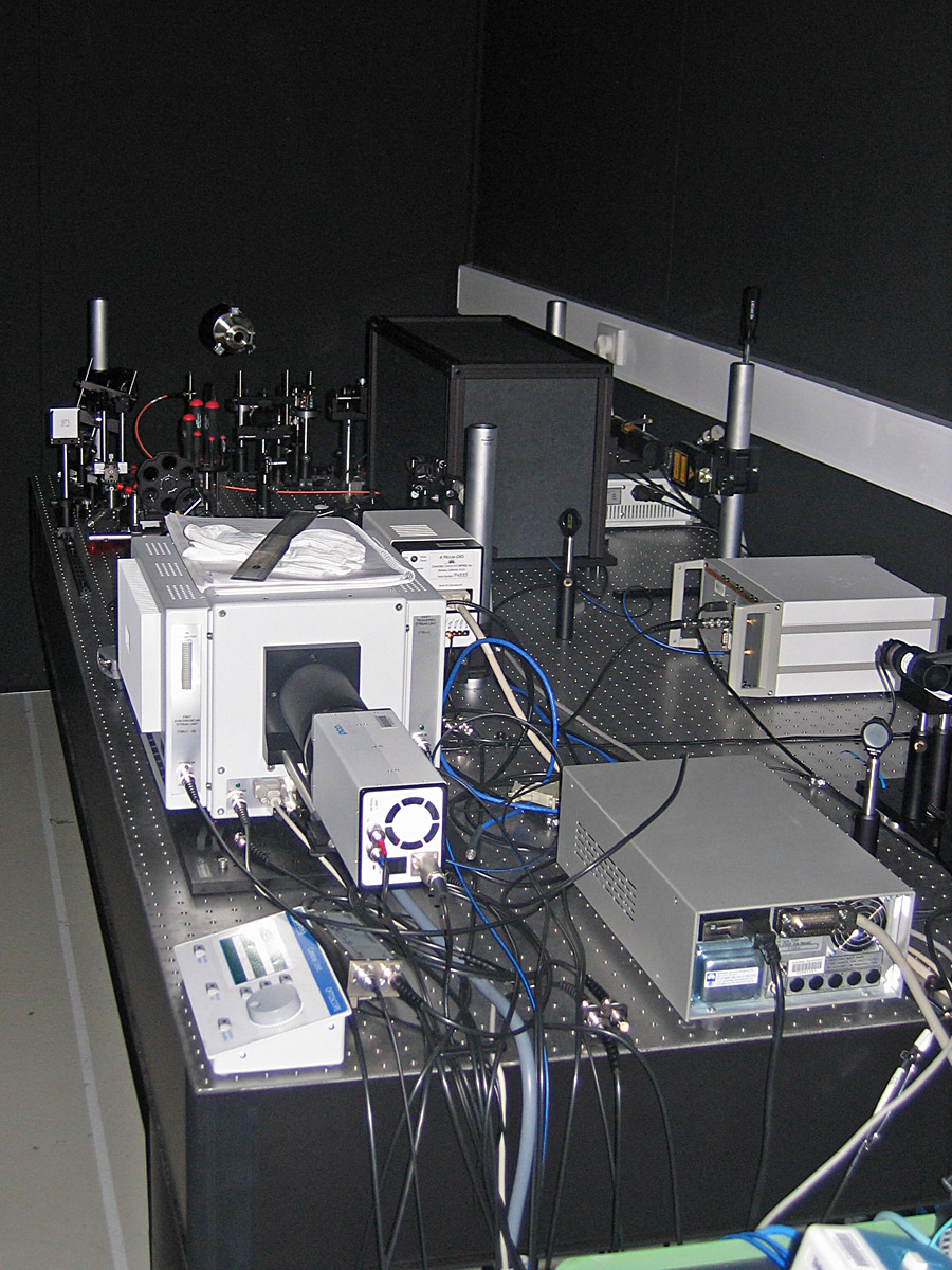 The eVBL (educational virtual beamline) experimental station at the Australian Synchrotron, Clayton, Victoria. Light from the synchrotron enters through the small aperture in the back wall.